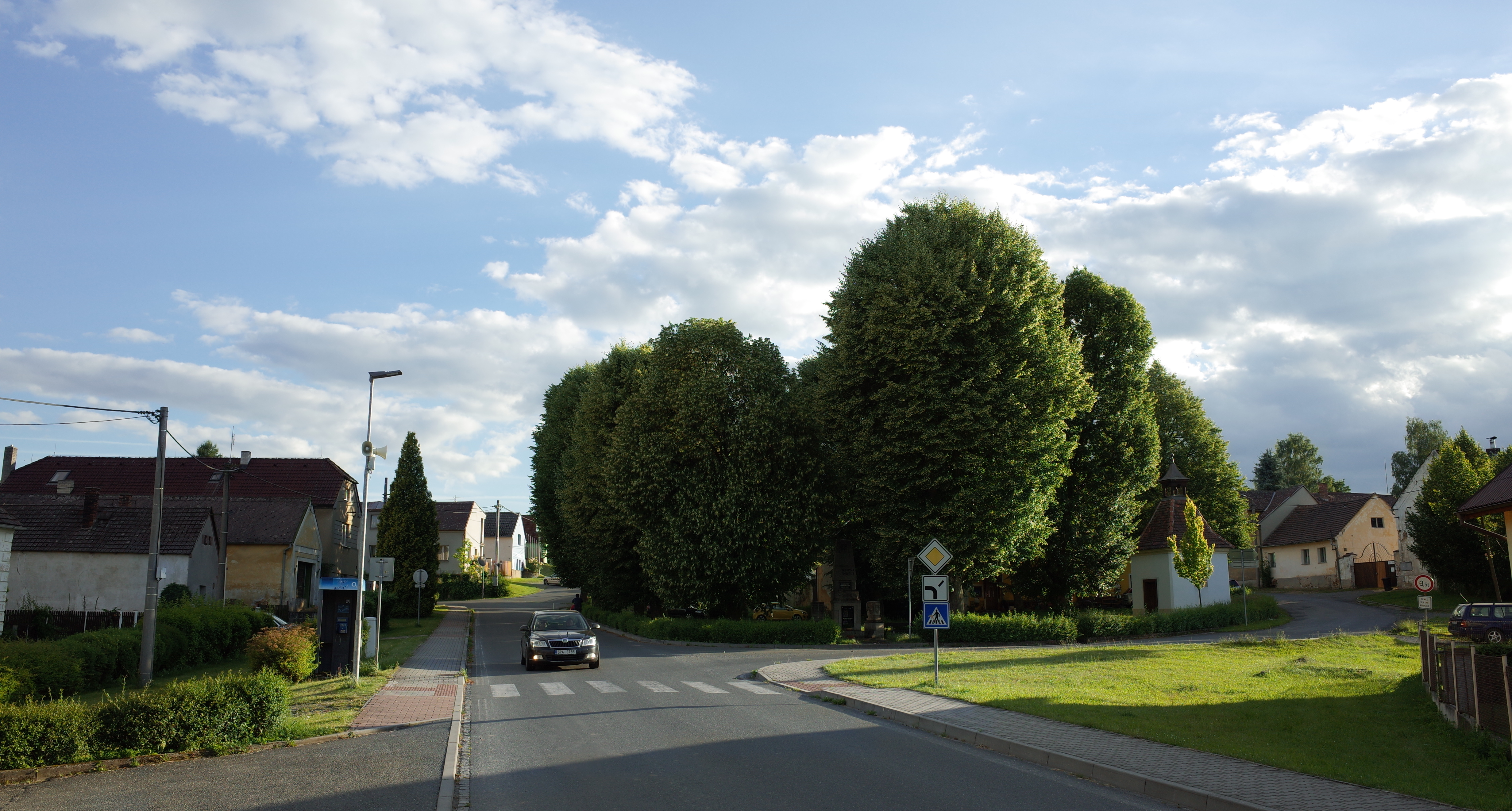 Nevřeň village square